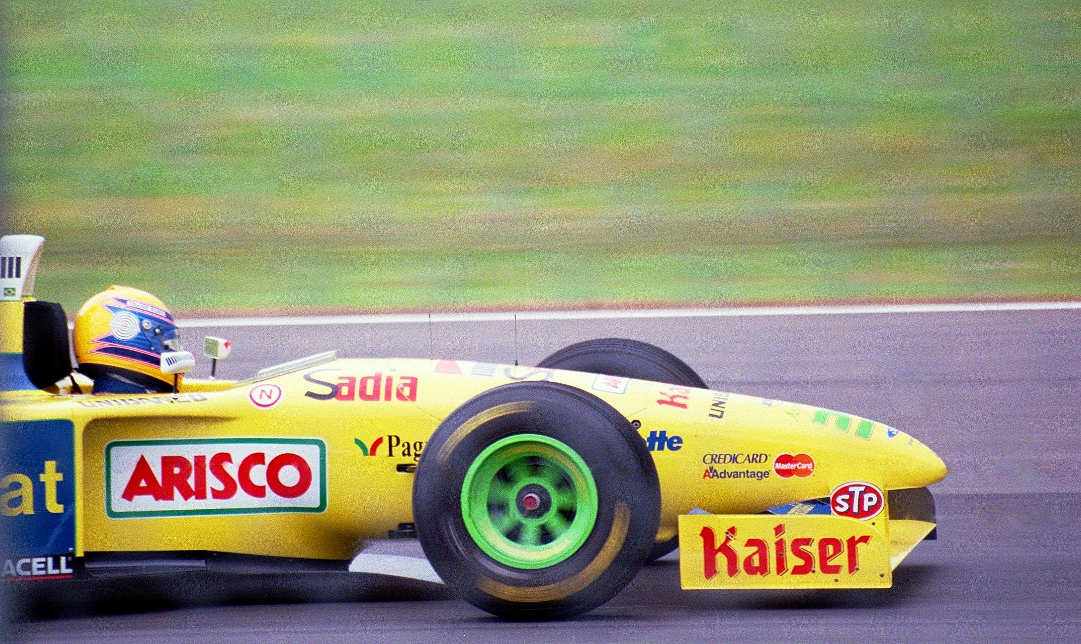 Roberto Moreno - Forti FG01 at the 1995 British Grand Prix, Silverstone